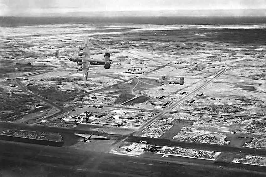 Photo of U.S. Army airbase located on the island of Baltra (Seymour) in the Galapagos Islands during World War II. Note the only B-15 bomber ever built parked on the runway.